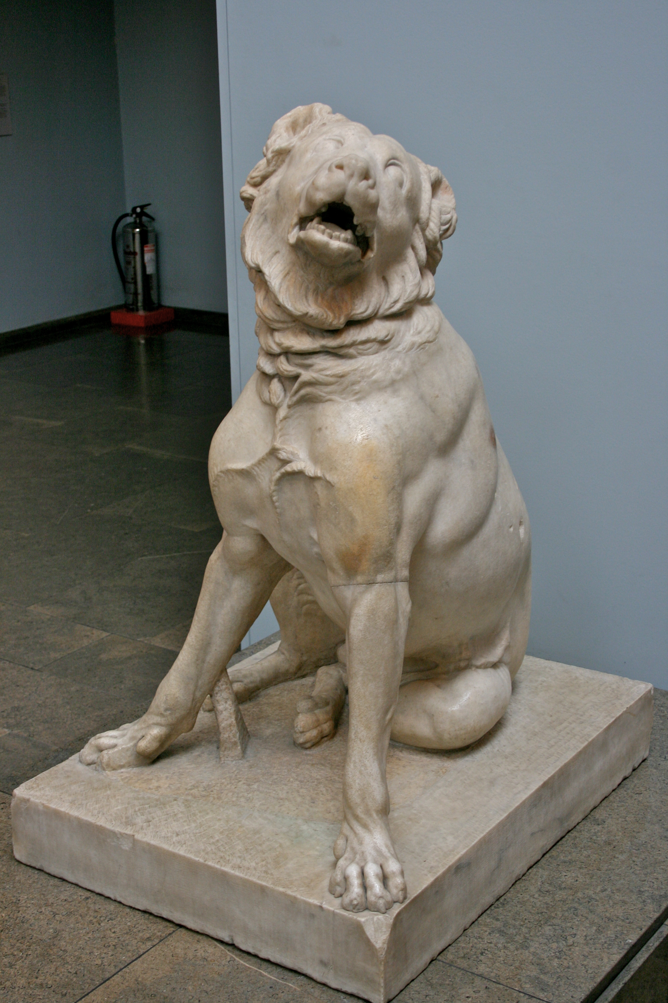 Molossian Hound. The version is sometimes known as "Jennings Dog". On display in the British Museum.